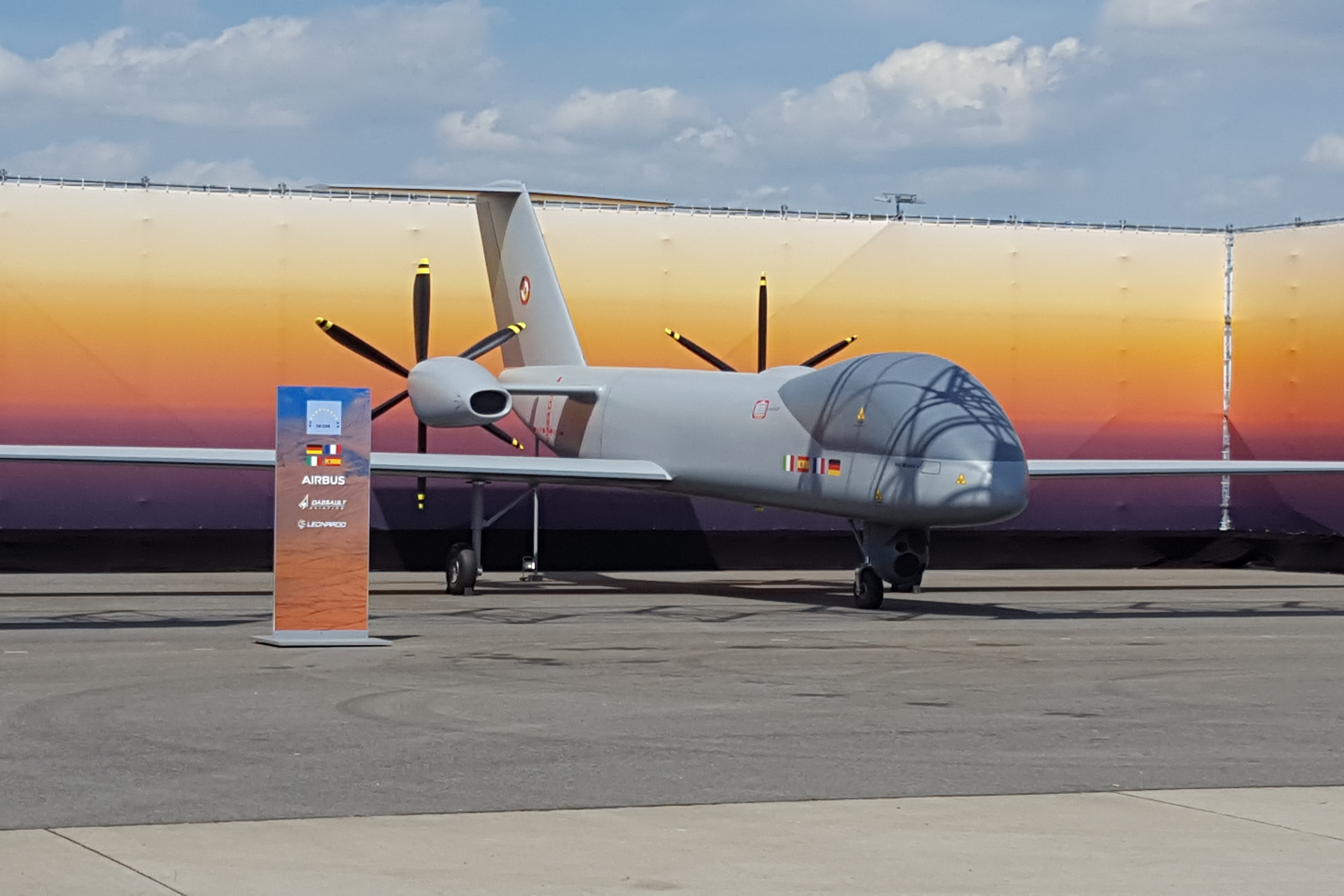 European MALE RPAS Mock-up at ILA 2018